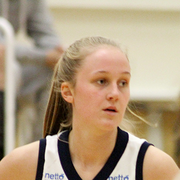 Keflavík's Thelma Dís Ágústsdóttir in a game against Snæfell on 3 December 2014.